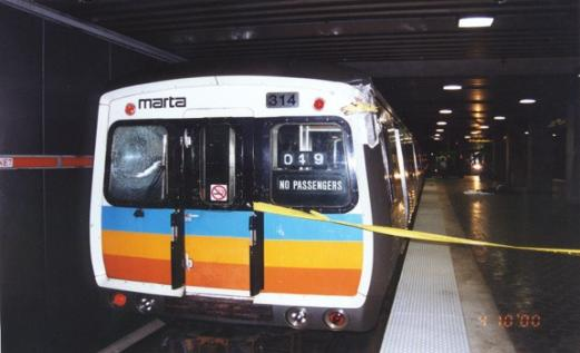 Picture is from NTSB abstract RAB-03/02. Metropolitan Atlanta Rapid Transit Authority (MARTA) Unscheduled train 166 striking bucket of self-propelled lift containing two contract workers MARTA Lenox rail transit station in Atlanta, Georgia April 10, 2000, about 2:30 a.m. Because the NTSB is a US federal agency the image is not subject to copyright.